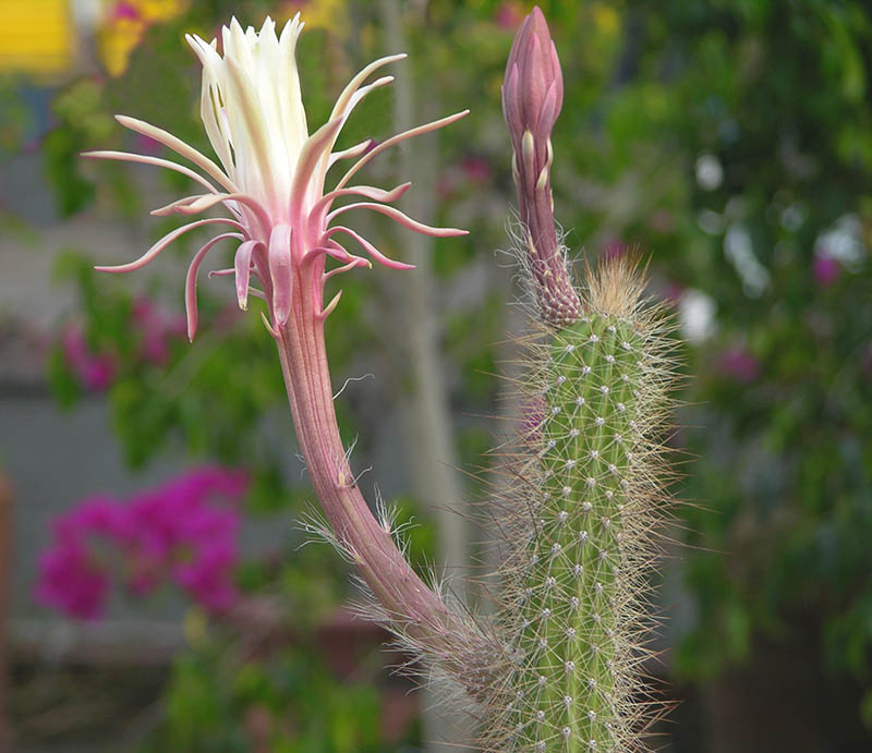 Nyctocereus serpentinus (Peniocereus serpentinus) flowers.